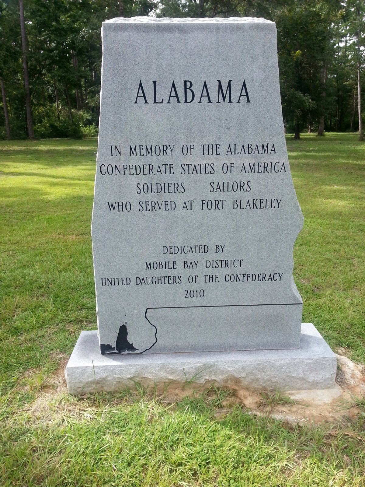 Monument located near Blakeley Cemetery